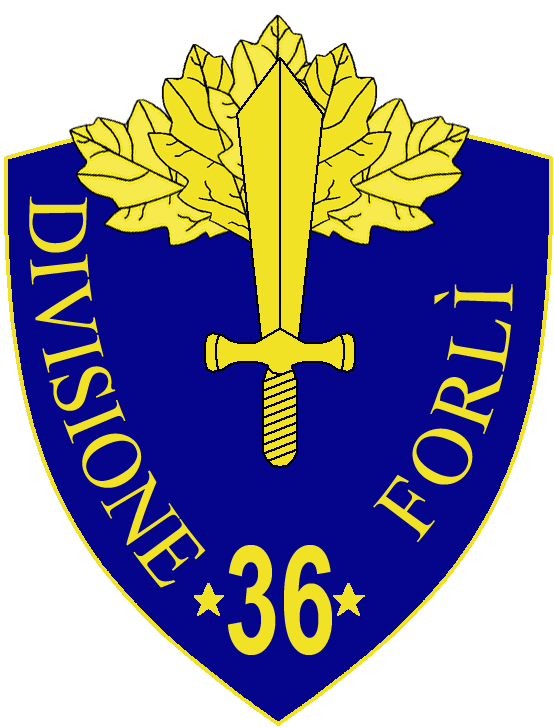 36a Divisione Fanteria Forlì insignia, Regio Esercito, Italy, WWII